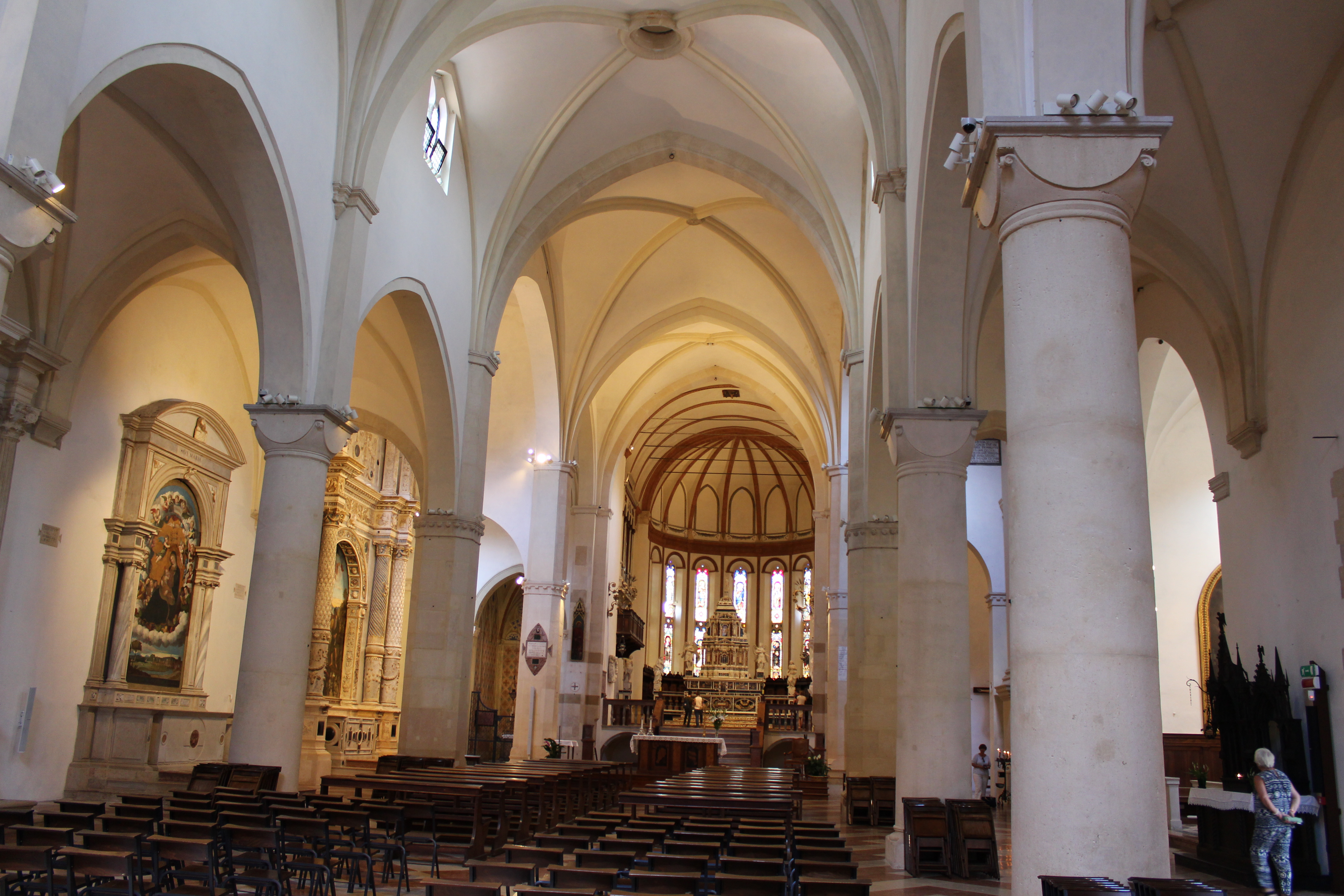 Nave of Santa Corona, Vicenza, Italy